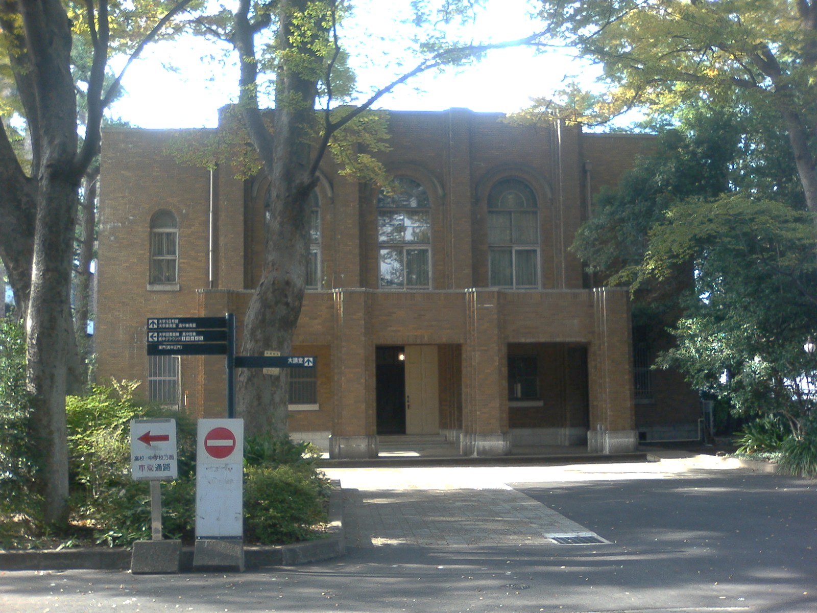 Musashi University Auditorium, a historic building on the Musashi University campus in Tokyo, Japan